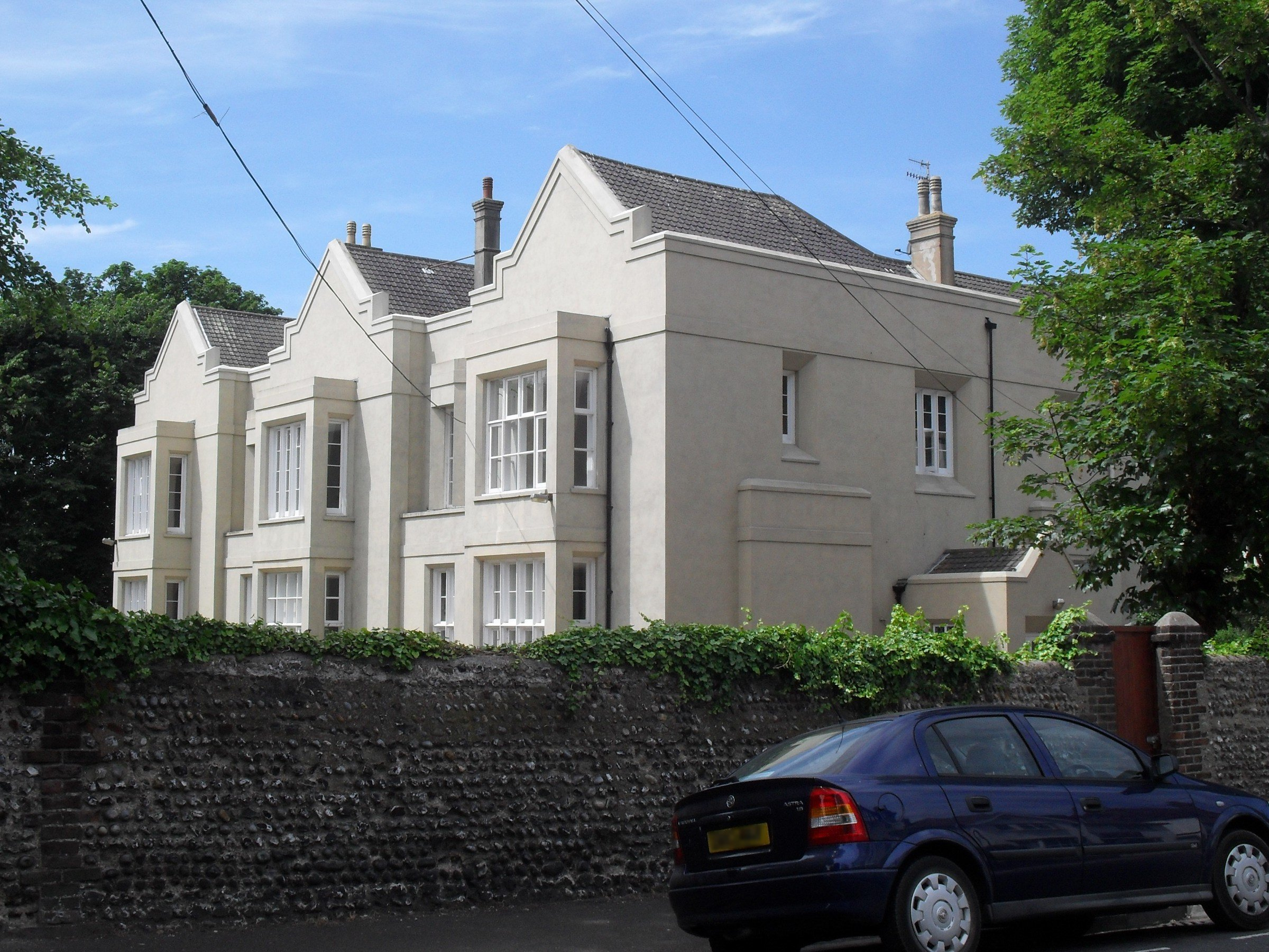 Brighton & Hove High School (Old Vicarage building), Denmark Terrace, Brighton, City of Brighton and Hove, England. Built in about 1835 for Rev. Arthur Wagner, the Vicar of Brighton, this building now houses part of the private Brighton & Hove High School. Listed at Grade II by English Heritage (IoE Code 481328)